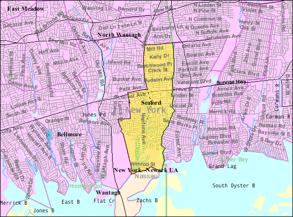 U.S. Census 2000 reference map for Seaford